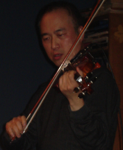 Violinist Jason Kao Hwang performing on 18 November, 2006 at Sangha in Takoma Park, Maryland. Other performers, not pictured: Taylor Ho Bynum, cornet, flugelhorn; Andrew Drury, drum kit; Ken Filiano, string bass.